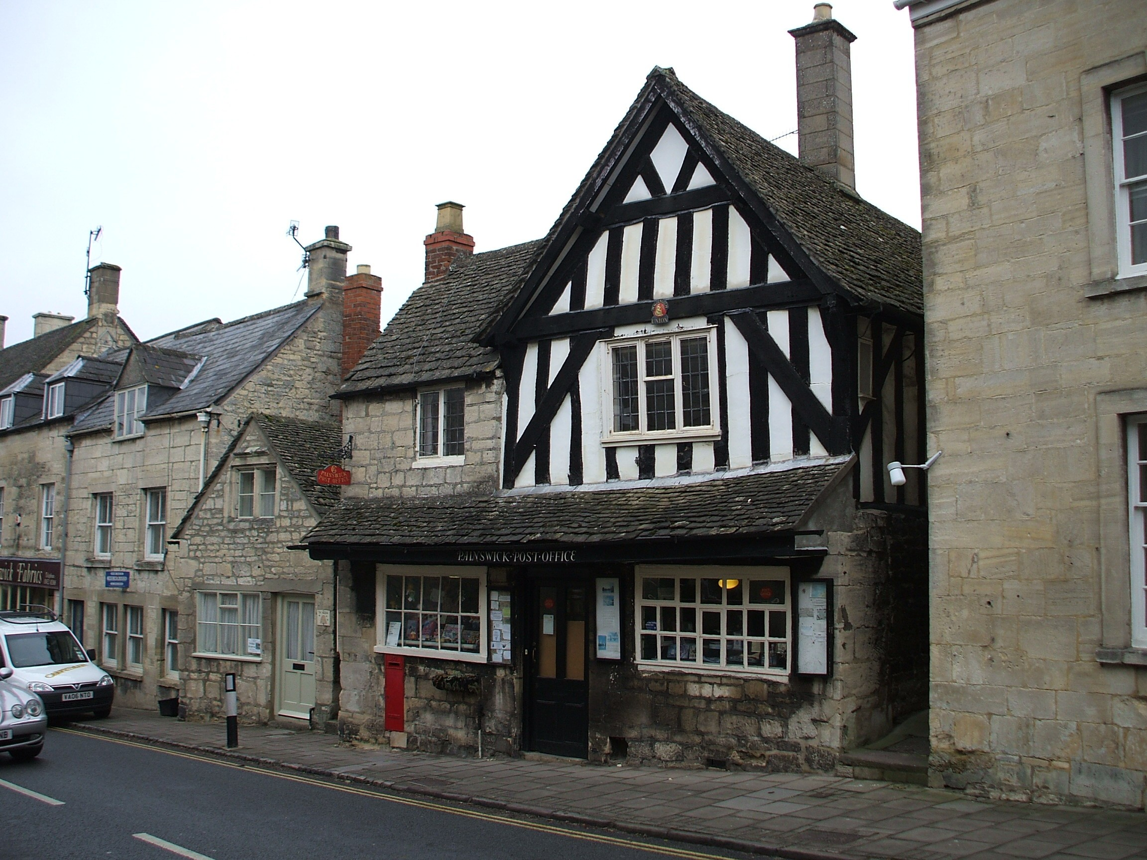 Post office in Painswick, Gloucestershire. The building which housed the post office dates from 1428, making it the oldest known building which also contains a post office within the United Kingdom.